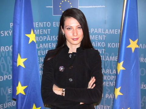 Kader Sevinc, EU representative of CHP.